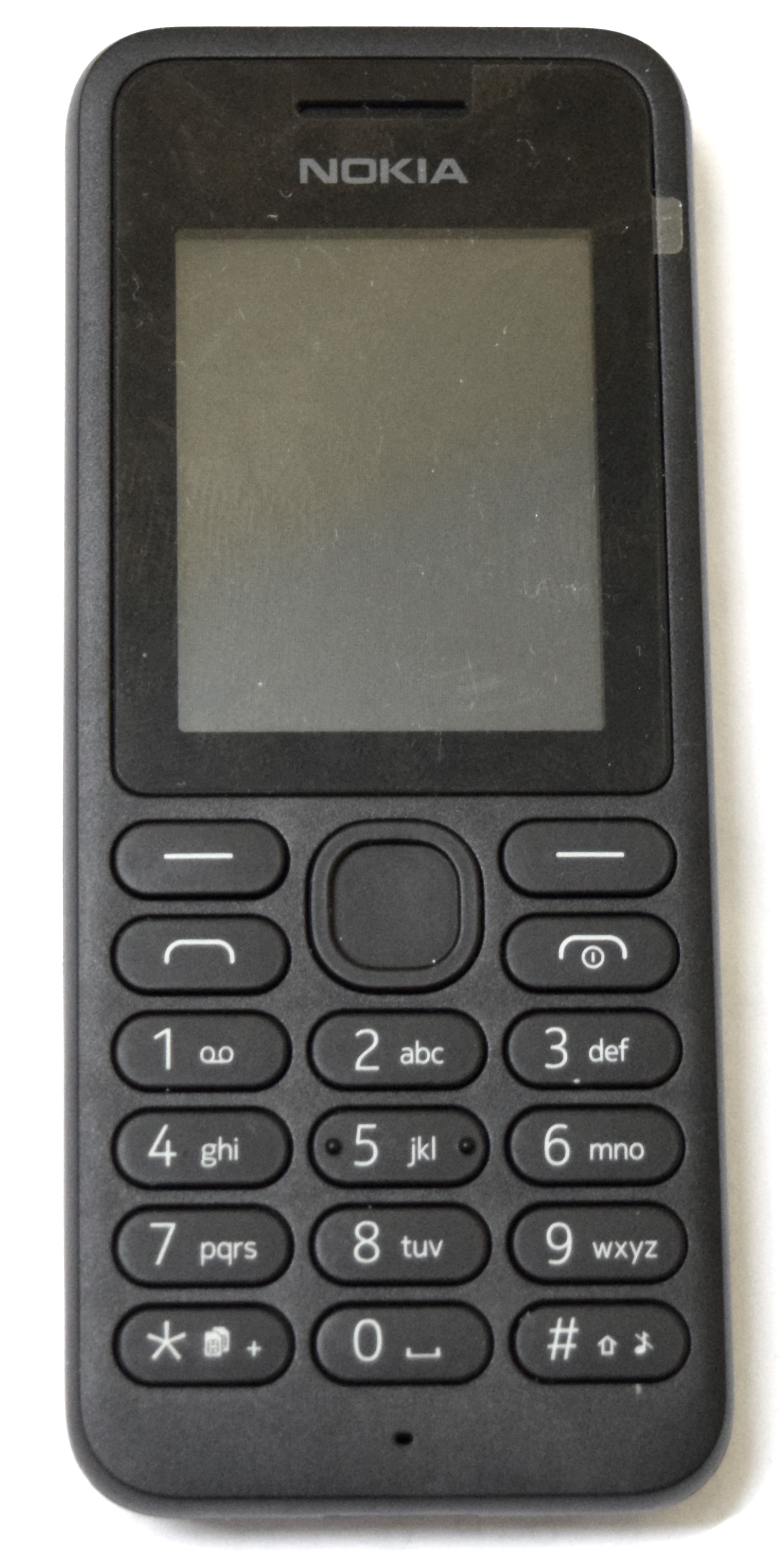 Nokia 130 dual sim mobile